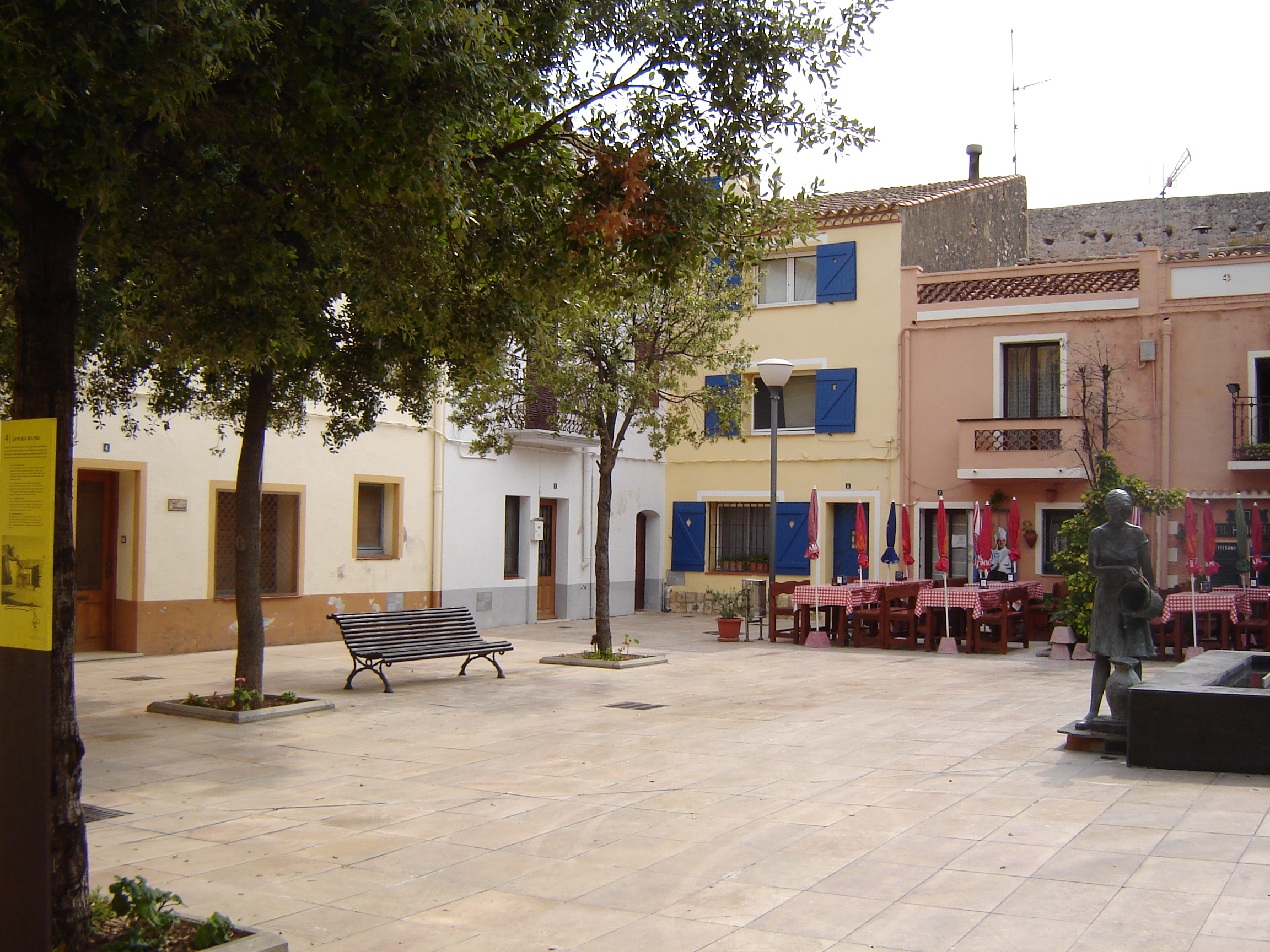 Plaza del Pou in the centre of Hospitalet de l'Infant. Hospitalet de l'Infant, municipality of Vandellòs i l'Hospitalet de l'Infant, comarca Baix Camp, province of Tarragona, Spain.